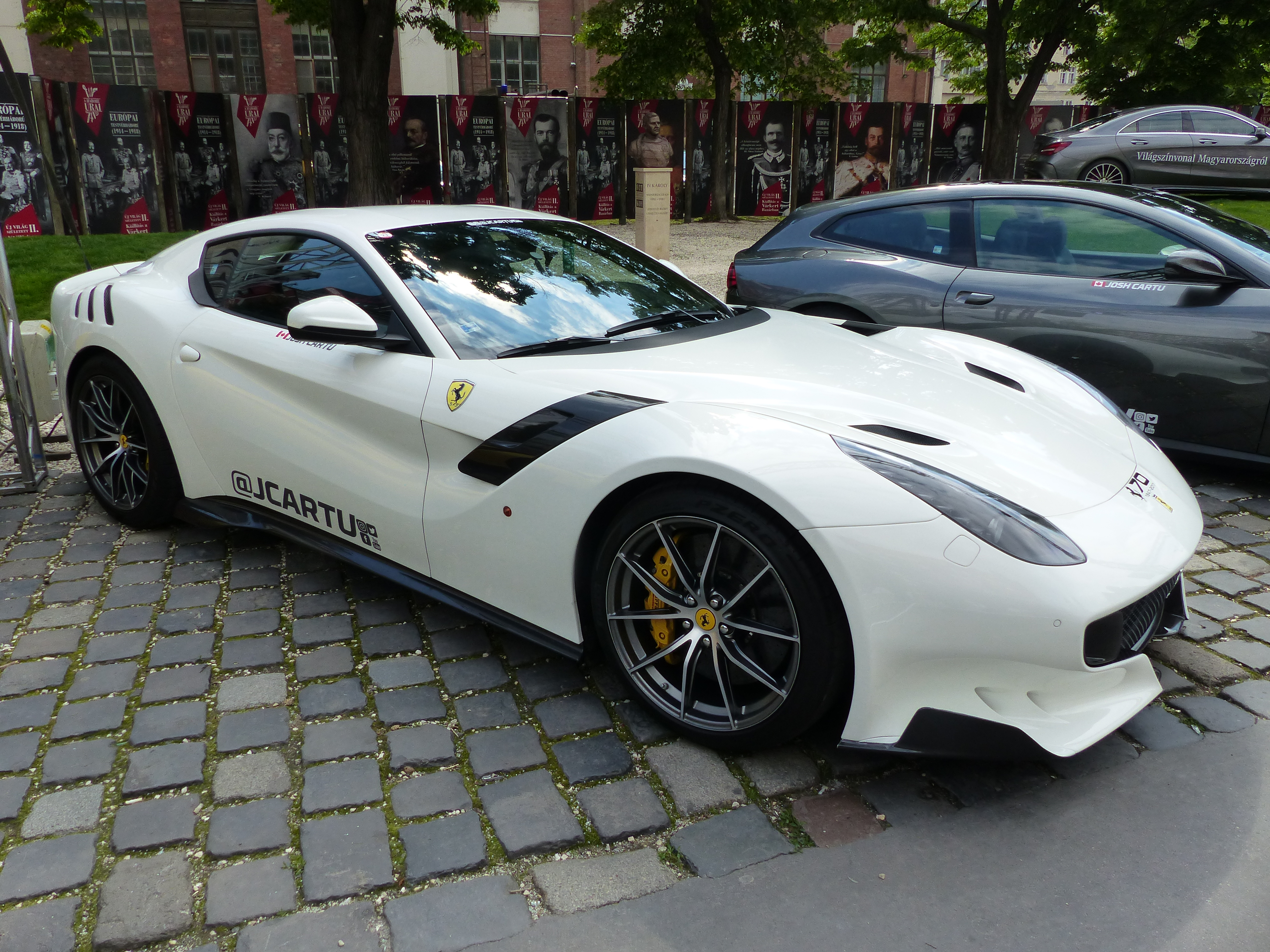 Nagy Futam. Budapest, Hungary, Central Europe. Taken on the 30th of April, 2017. Before the day of Nagy Futam (1st of May, 2017) racing cars on display at the Városház park, Budapest.